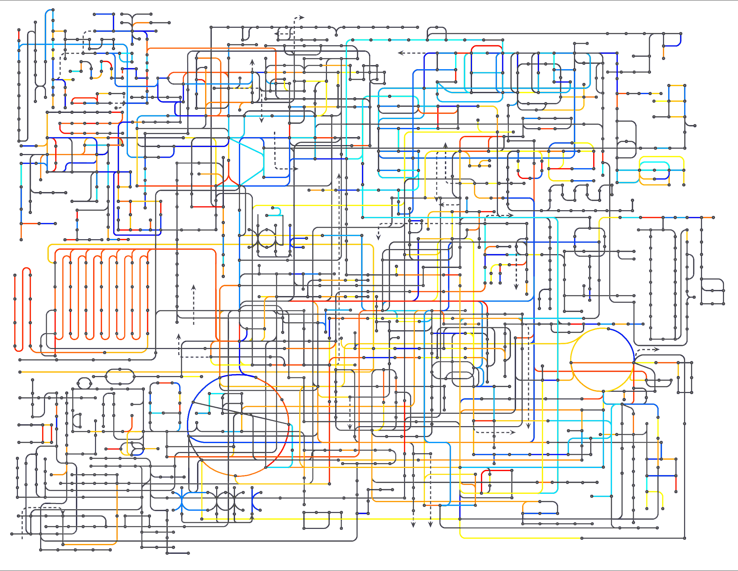 Artistic view of a simplified human metabolic network (human metabolome). In the left-bottom corner, the Krebs cycle, in the right-mid-side the Urea cycle, left-mid-side Fatty-acid beta-oxydation.